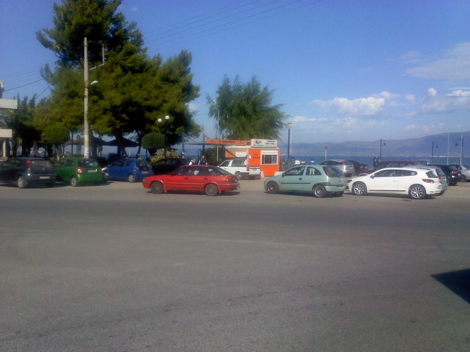 Ferry Oropos